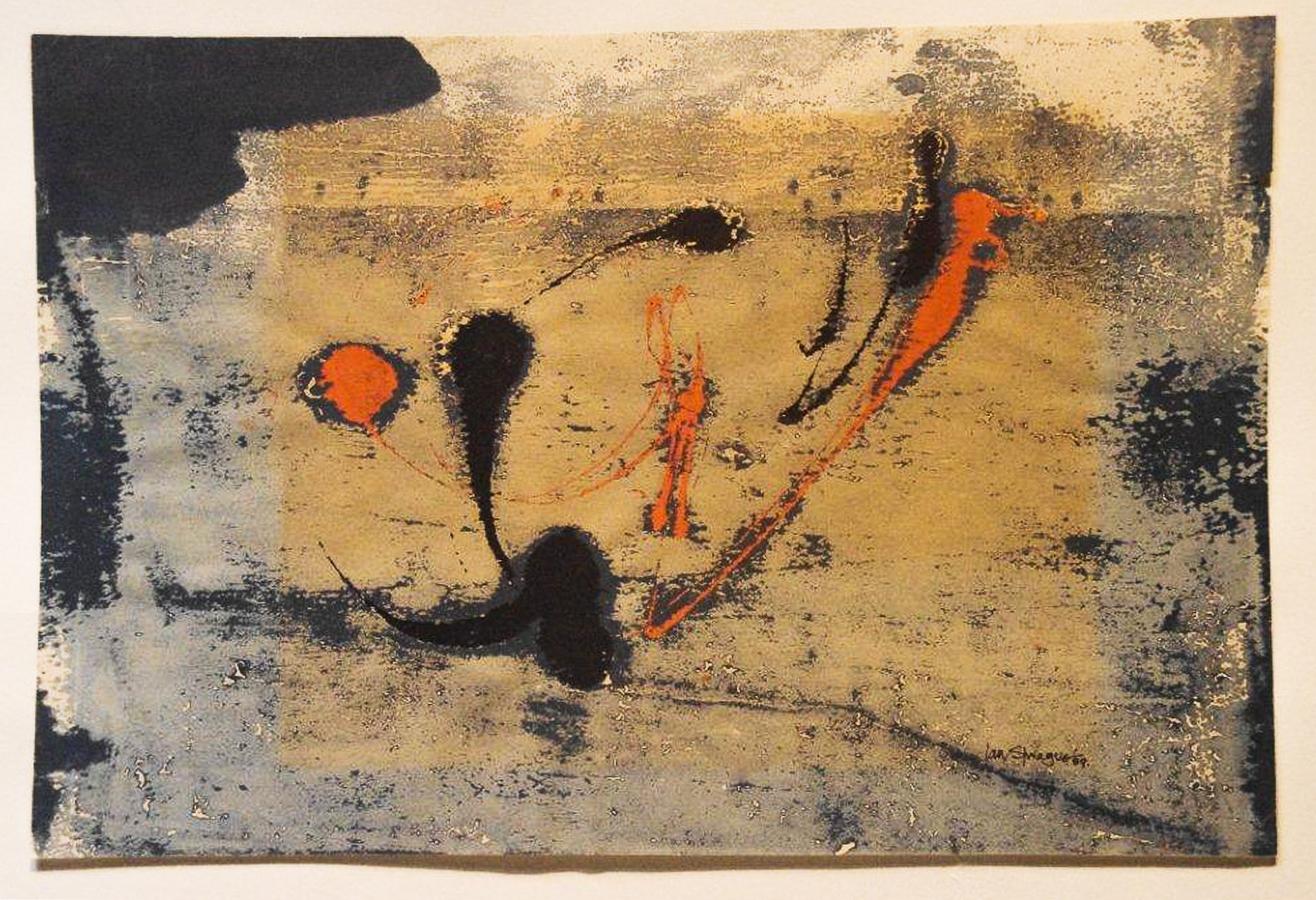 Orange and dark indigo monoprint by Ian Sprague, 1980s; photographed in a private collection at Enfield Victoria